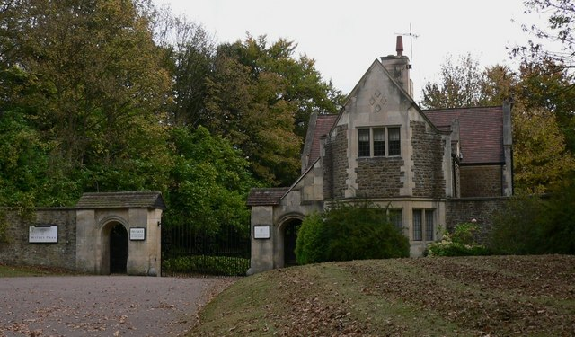 Thursley Lodge at Witley Park. The Witley Park Estate has a number of lodges. Here is another one 1351894.